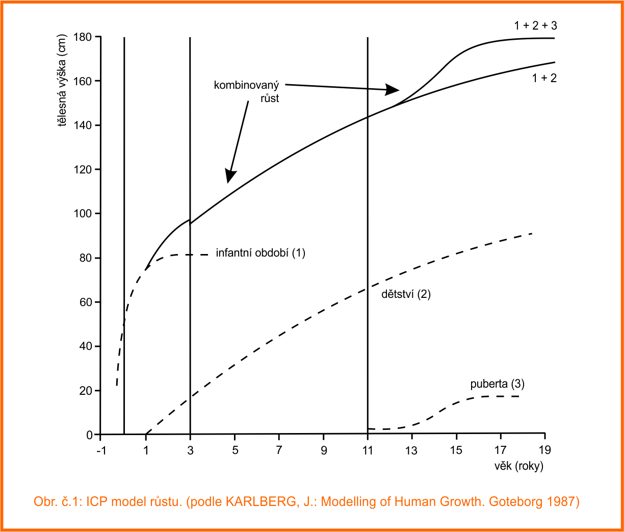 ICP model růstu